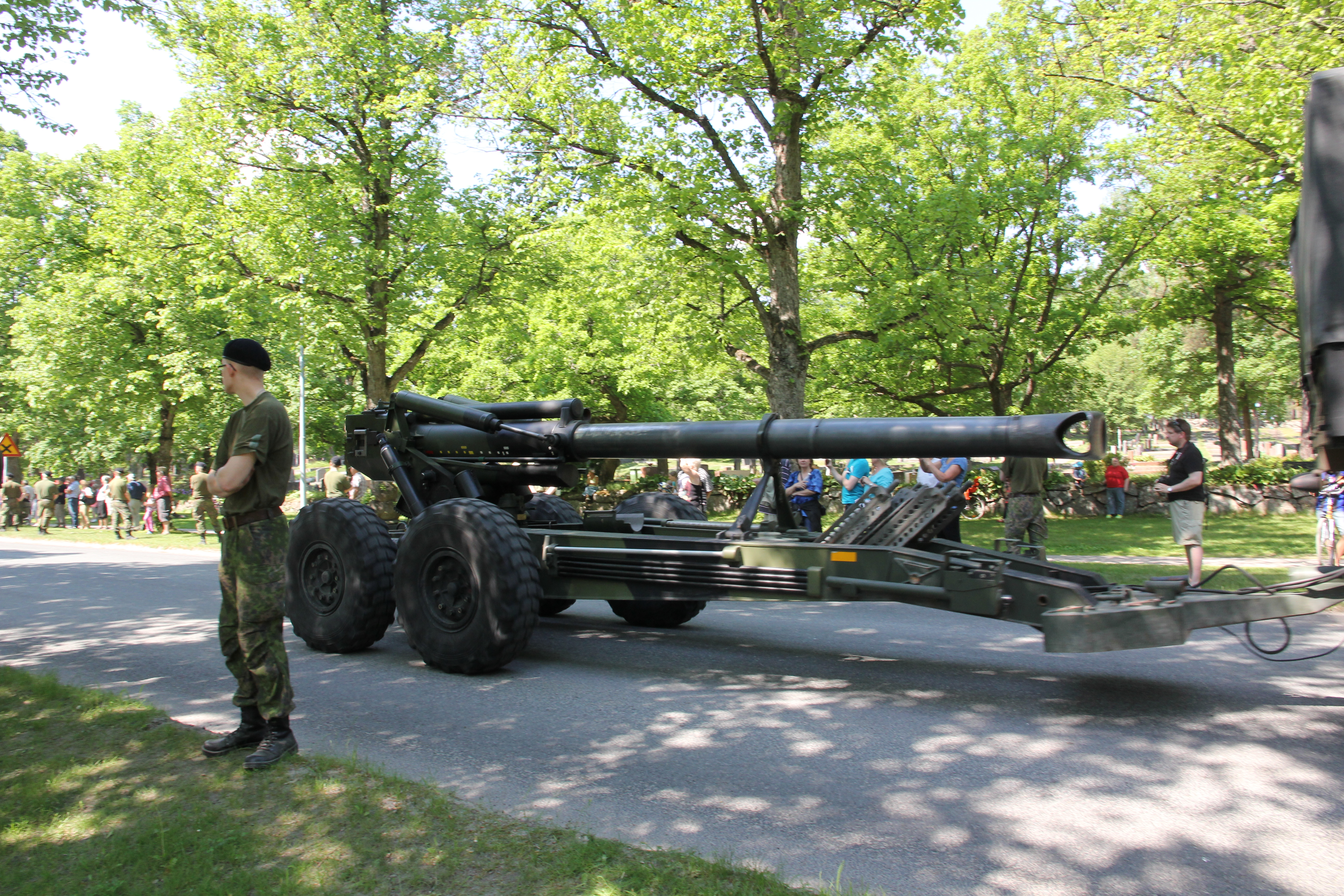 Artillery brigade 155 K 83-97 heavy towed cannon during the Finnish military Flag Day 2013 parade along Raaseporintie road in Tammisaari.